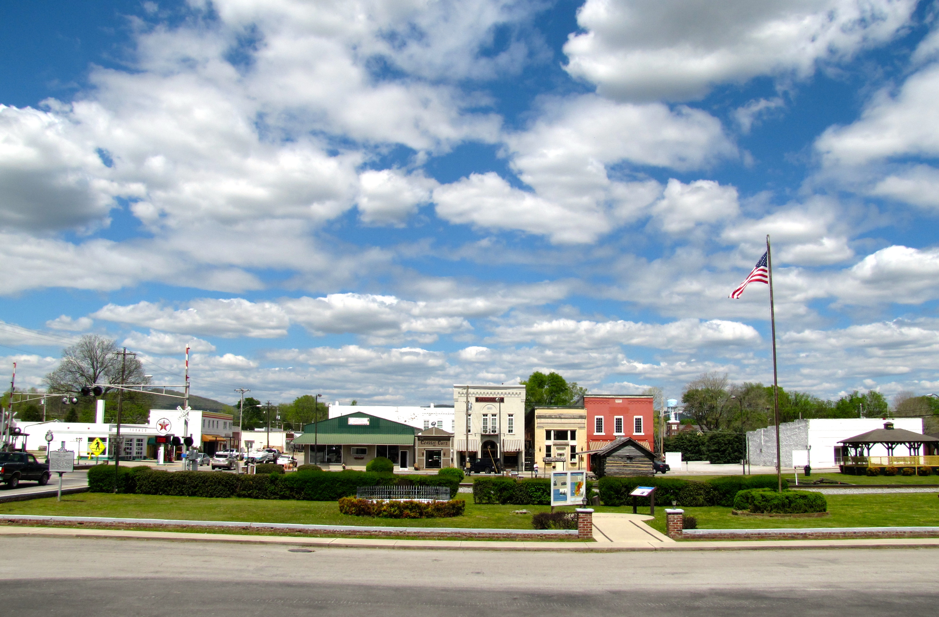 Cowan, Tennessee, United States, looking northeast from Front Street.